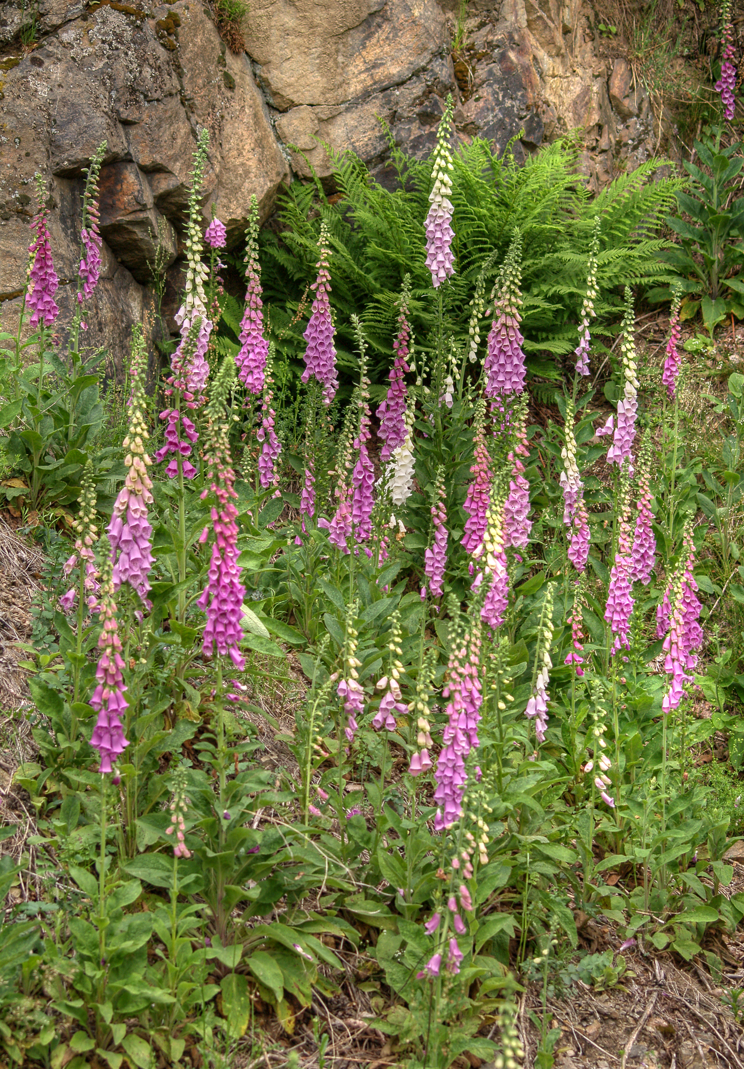 varying colored specimens of Common Foxglove (Digitalis purpurea), Geyer, Germany